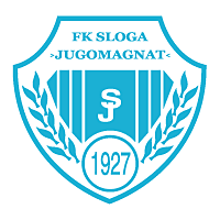 Football team logo